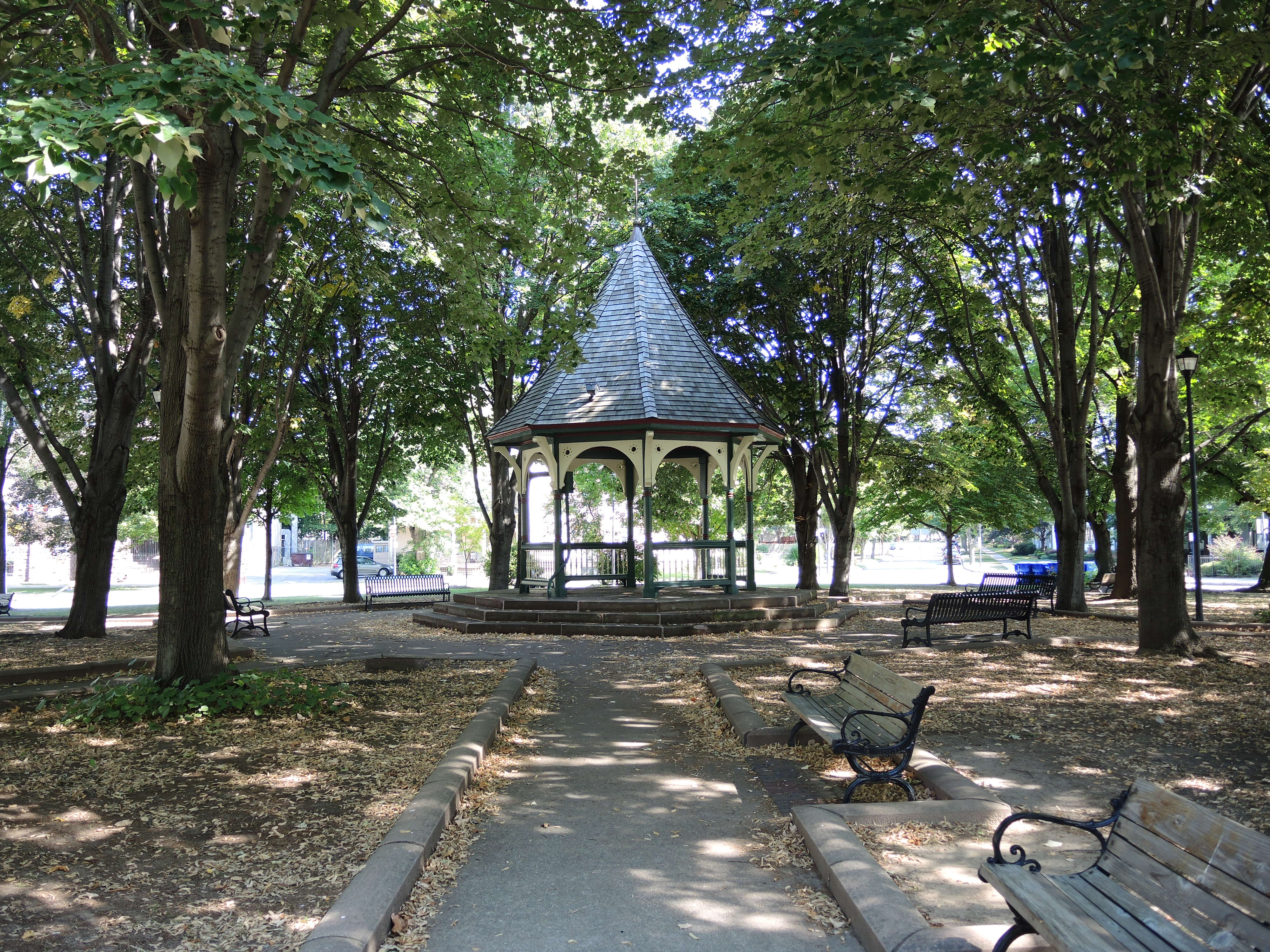 View of Lunsford Circle Park in Rochester, New York within the tree canopy